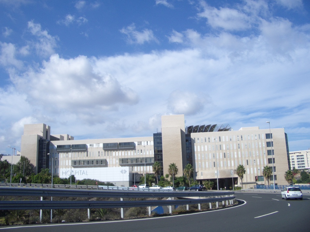 "Doctor Negrín" University Hospital of Gran Canaria. Las Palmas de Gran Canaria (Canary Islands, Spain).